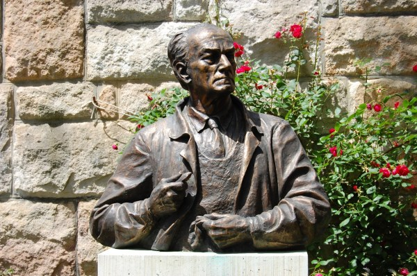 Bust of Bertalan Pór